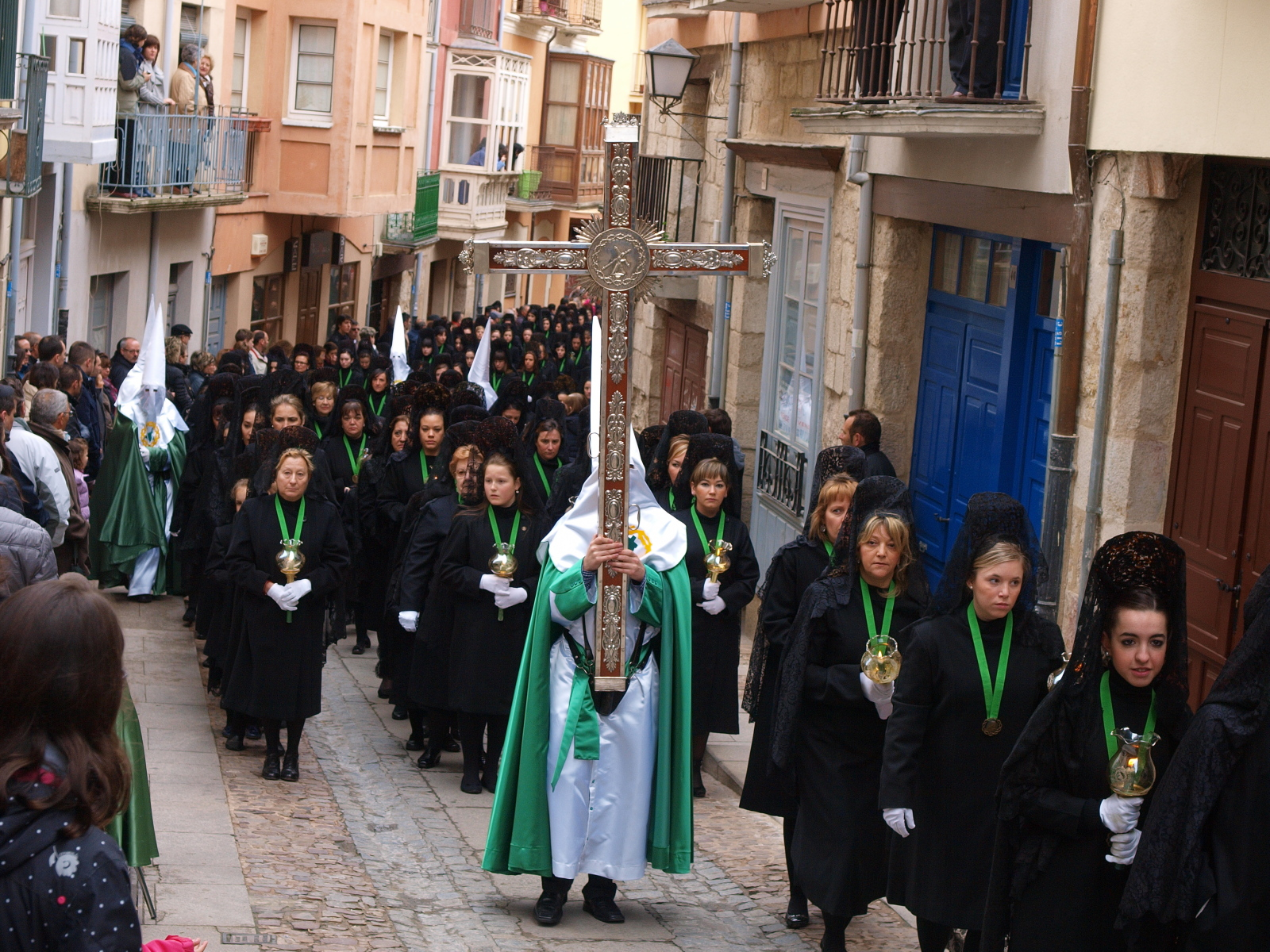 Procesion of the religious brotherhood Virgen de la Esperanza, Zamora (Spain), Holy Week 2012